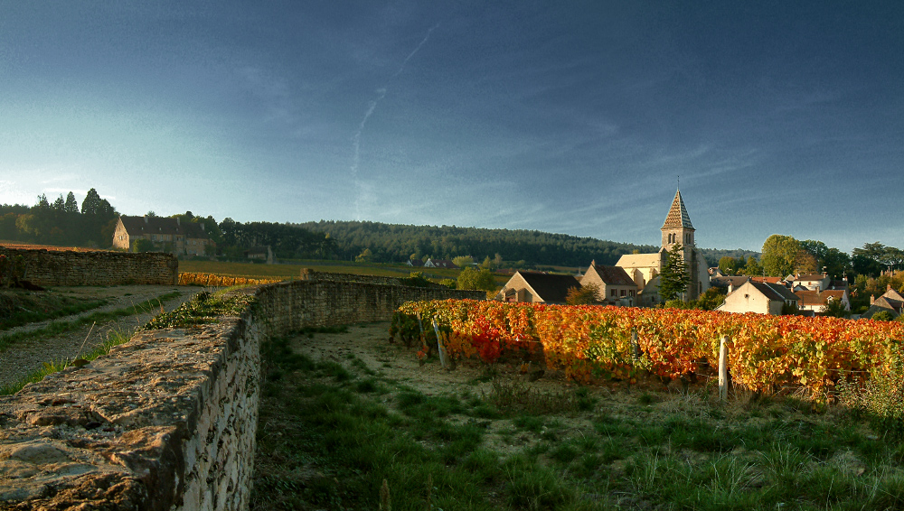 Panorama of Fixin, Côte d'Or, France